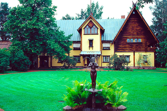 House, garden and fountain - the sculpture "Morgonbad" (Morning bath) - of the Swedish artist Anders Zorn. Mora, Sweden.